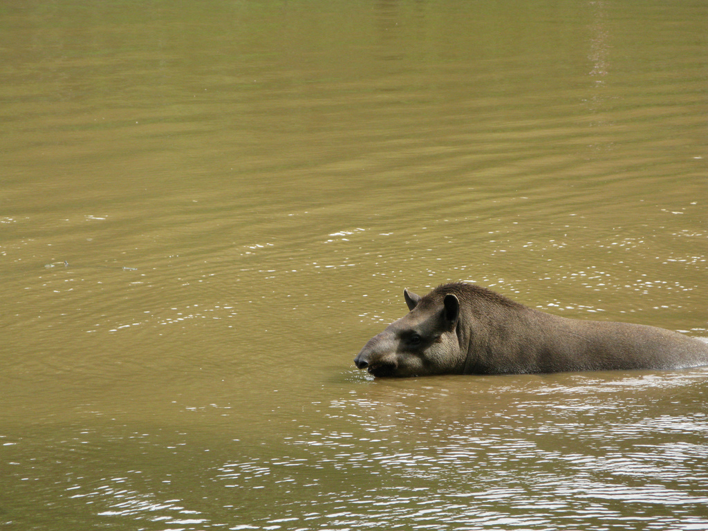 Tapirus terrestris.